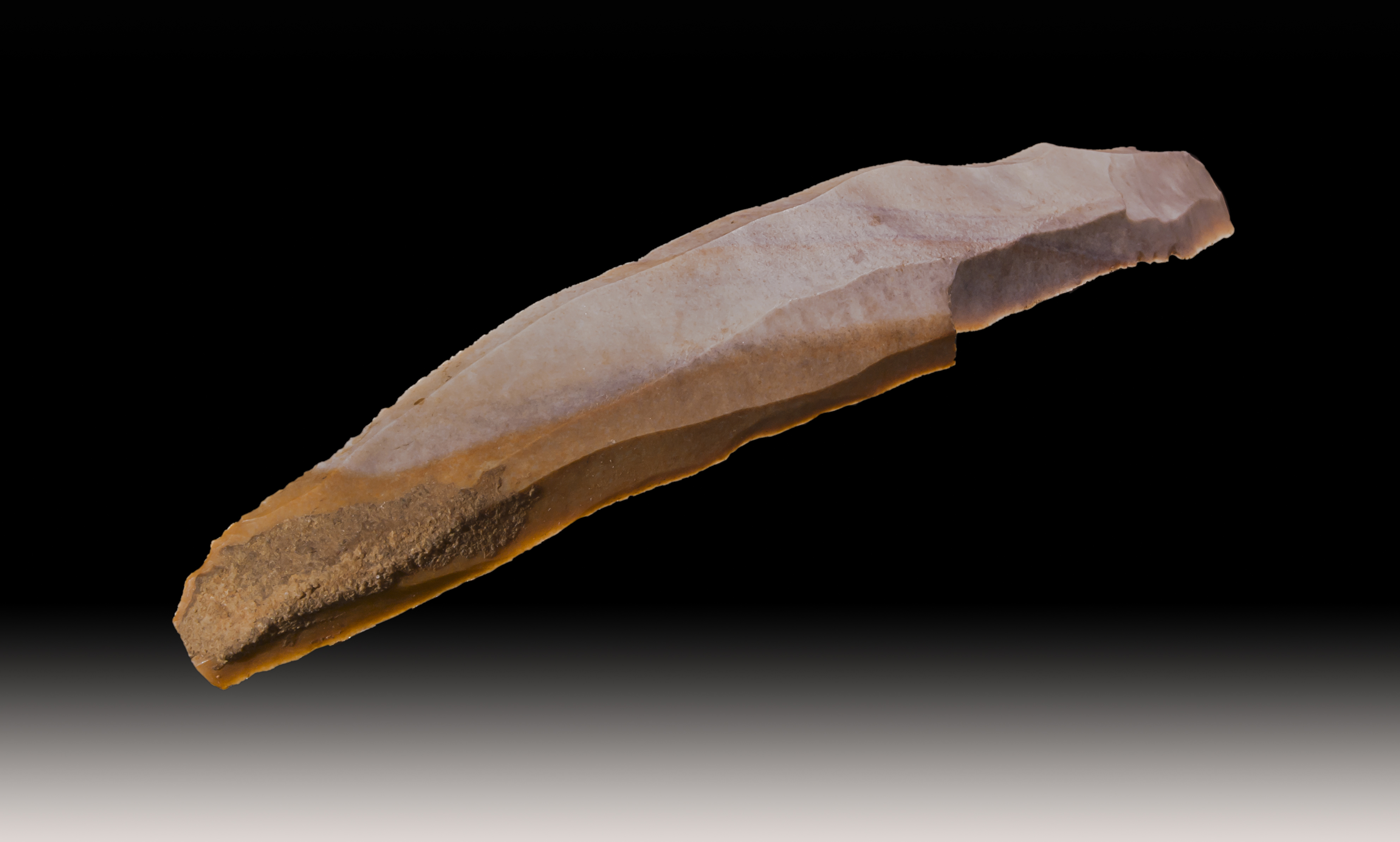 Blade - Different views of the same specimen - excavation by Robert Simonet